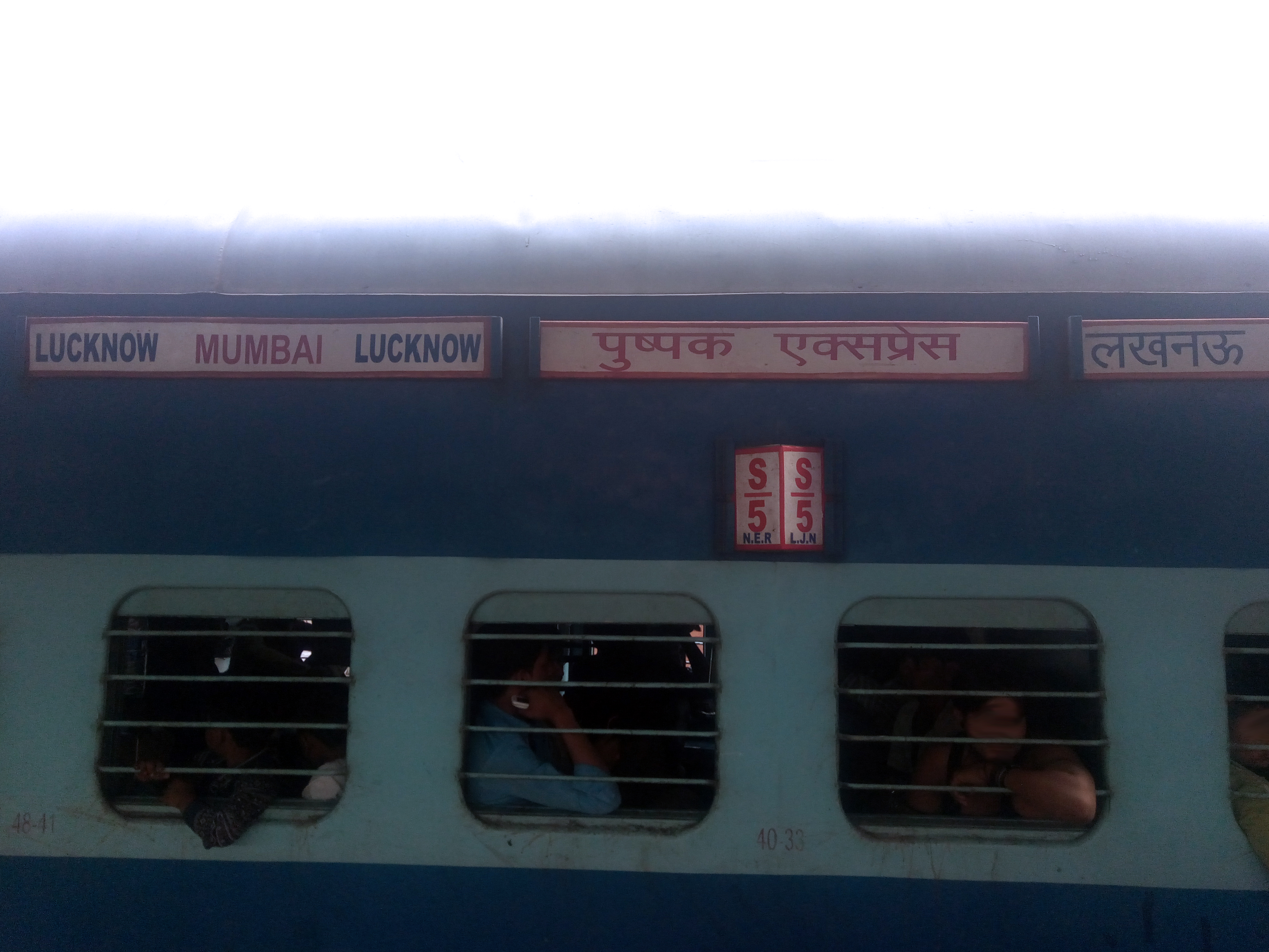 12534 Pushpak Express